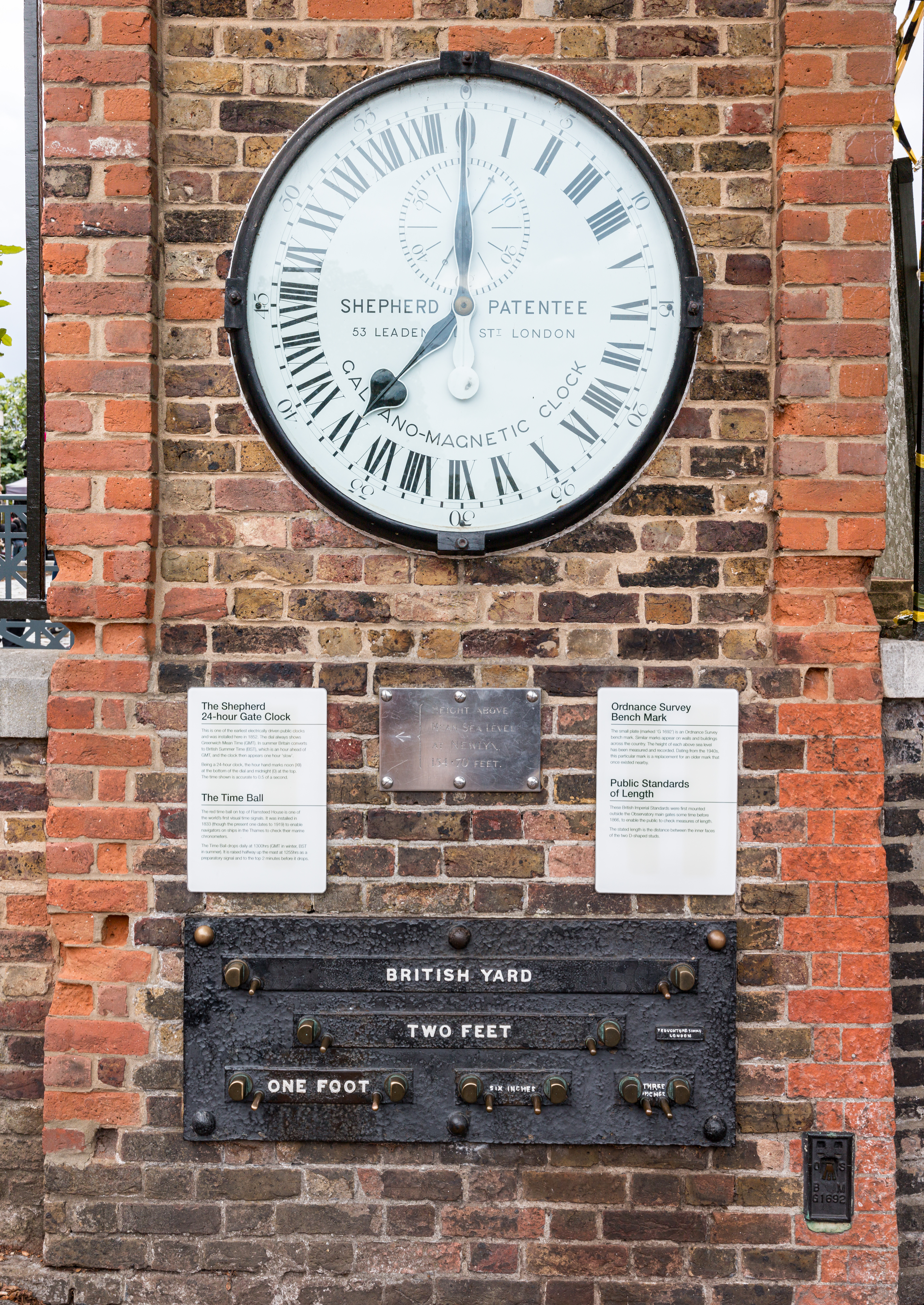 Shepherd gate clock at the Royal Greenwich Observatory, London, England, United Kingdom